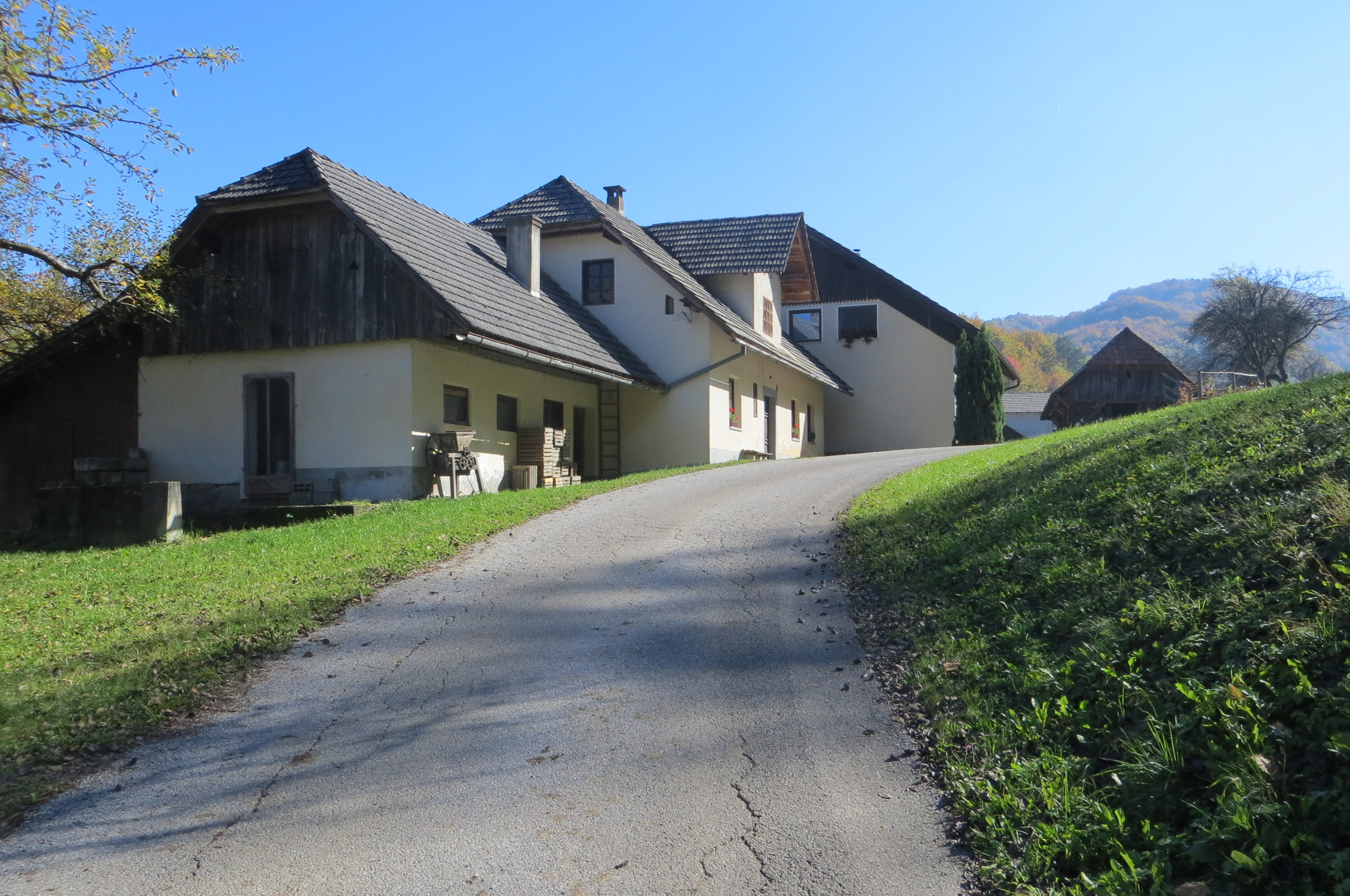 Hamlet of Matišnik in Gozd–Reka, Municipality of Šmartno pri Litiji, Slovenia